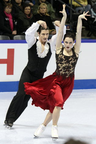 2010 Canadian Figure Skating Championships - Tessa Virtue and Scott Moir